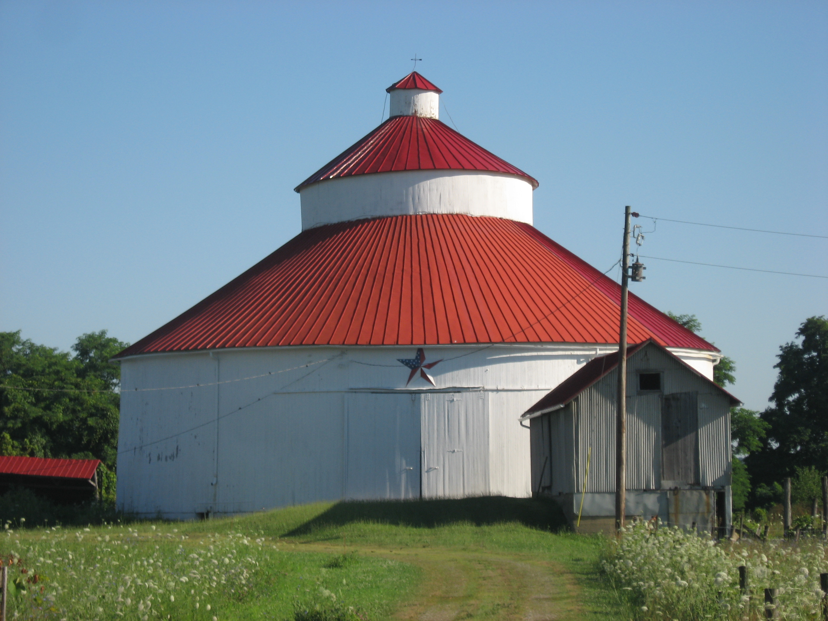 A wooden round barn near Kingston, Ohio, United States. Located southeast of Kingston at 3289 State Route 180 in Green Township, Ross County, it was built in 1910.